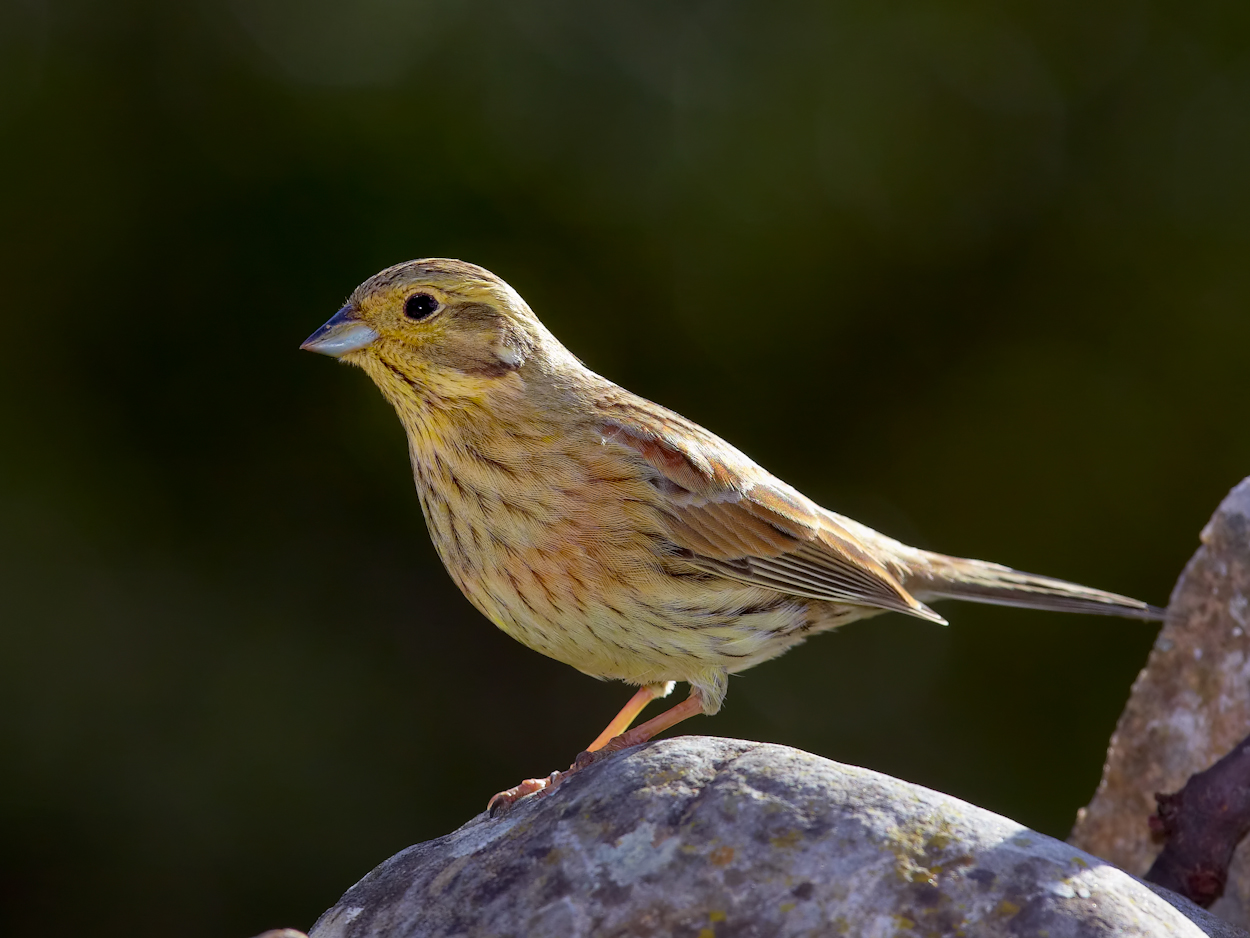 A female Cirl Bunting in Valencian Community, Spain.